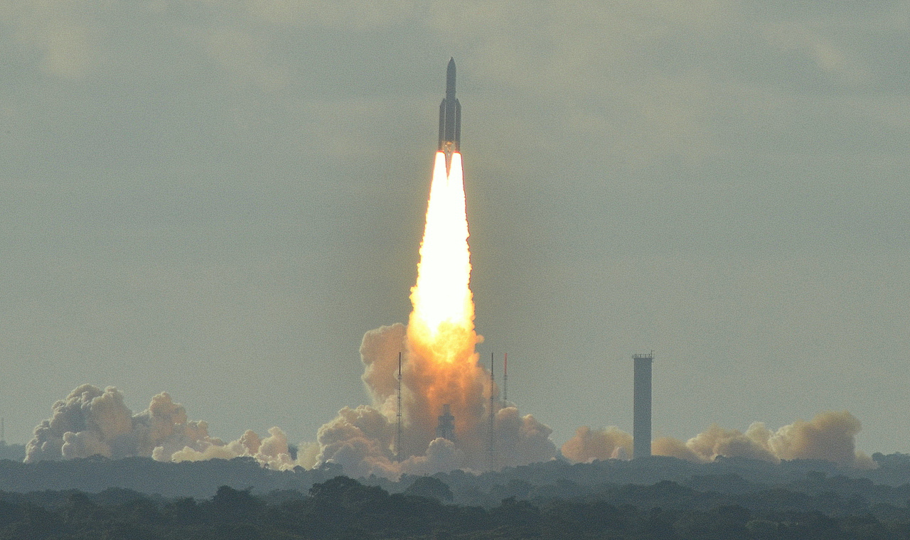 Ariane 5 lifting off from the Guiana Space Centre in Kourou, French Guiana